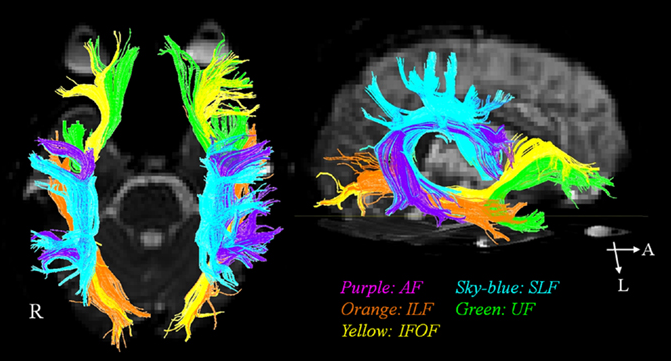 The diffusion tensor tractographies of neural tracts for language: the arcuate fasciculus (AF), the superior longitudinal fasciculus (SLF), the inferior longitudinal fasciculus (ILF), the uncinate fasciculus (UF), and inferior fronto-occipital fasciculus (IFOF). (Arrows at bottom right. A: Anterior, L: Lateral)